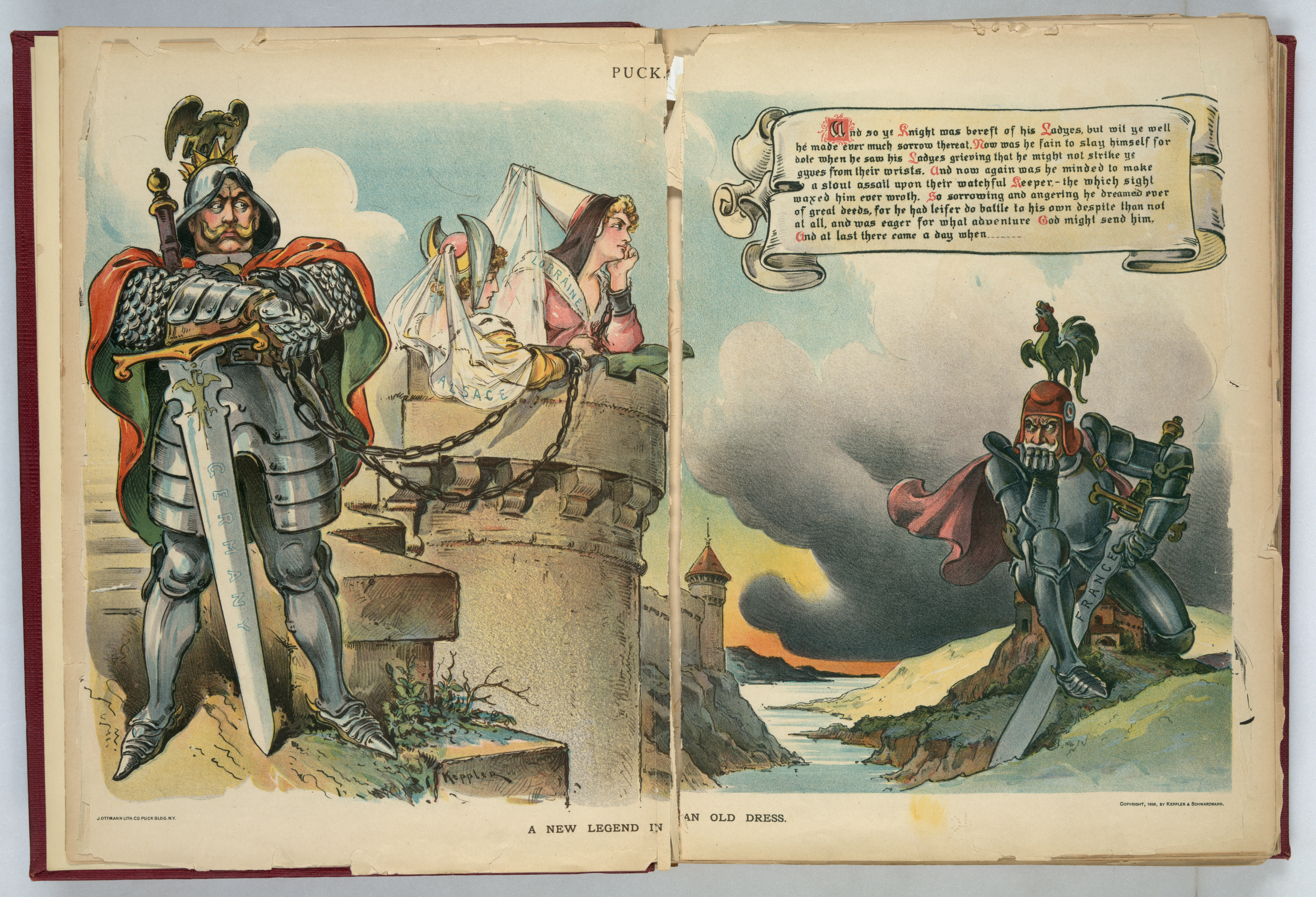 Title: A new legend in an old dress / Keppler. Abstract/medium: 1 print : chromolithograph.